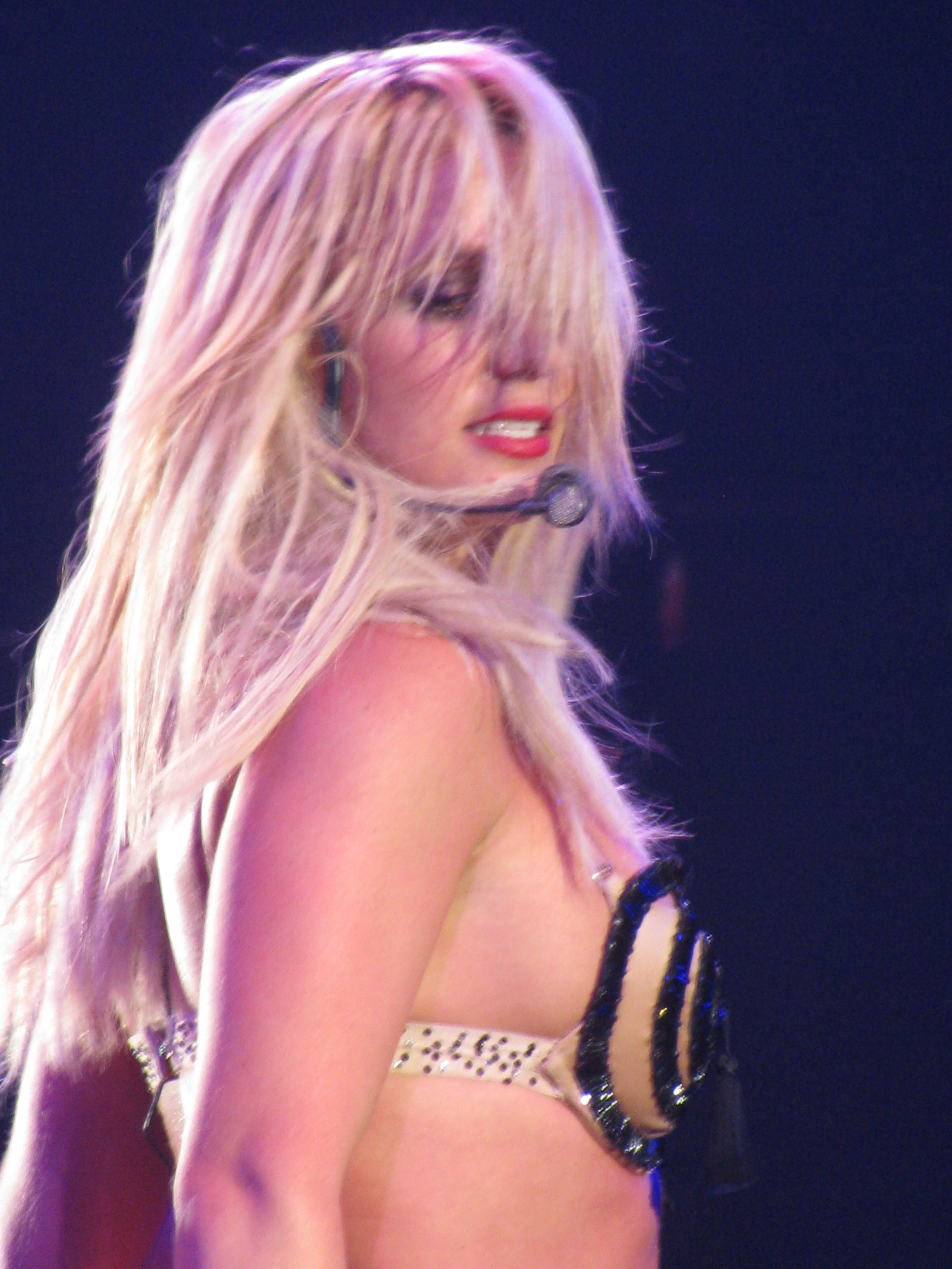 Britney Spears Performing Breathe on Me